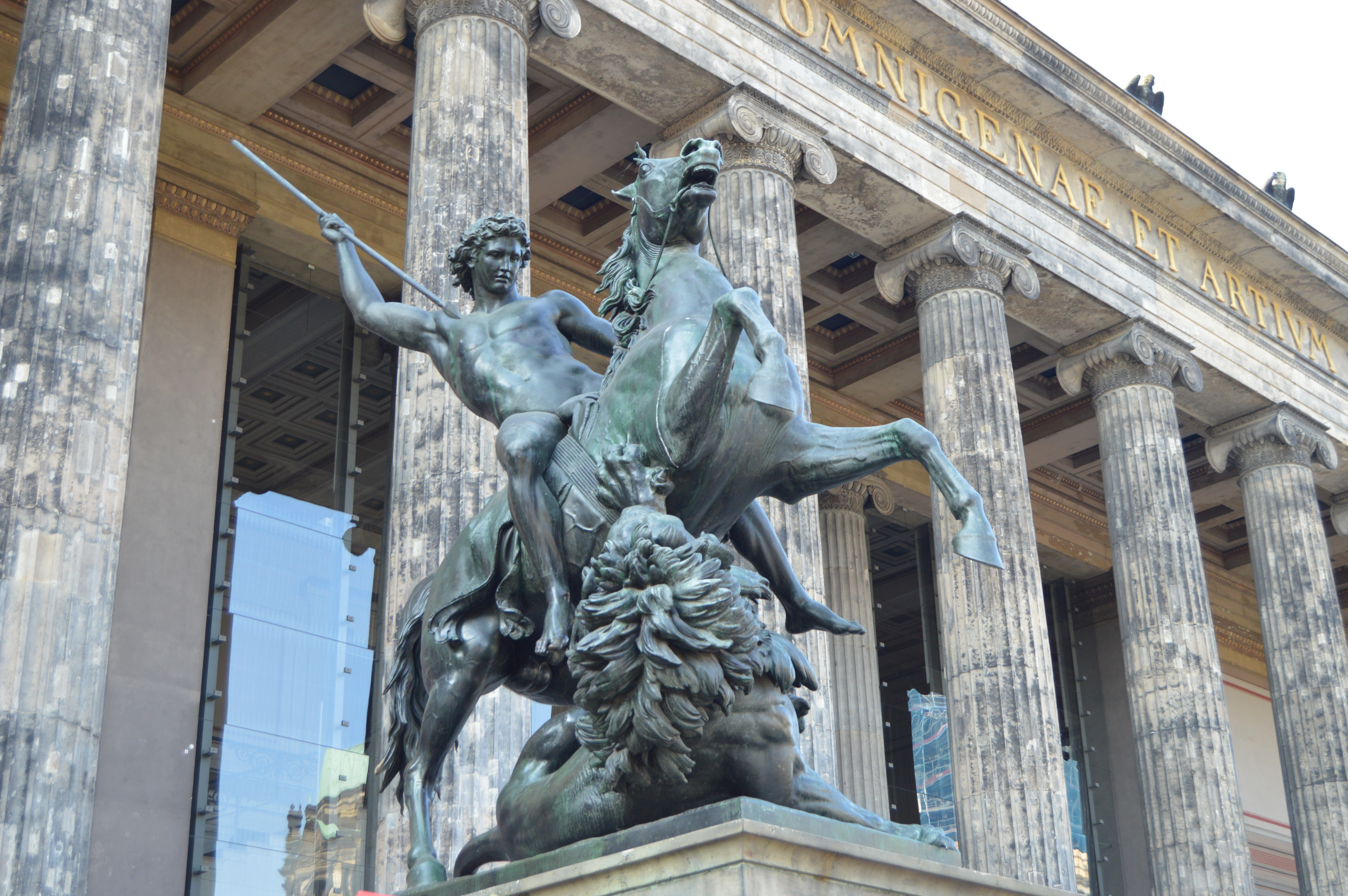 Statue at the entrance of Altes Museum in Berlin.